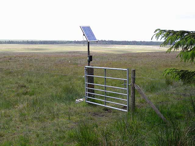 Solar powered electric fence, Catcherside North Plantation (near to Harwood, Northumberland, Great Britain). This moorland is fenced off with an electric fence, whose battery is topped up by solar power. The edge of Harwood Forest can be seen on the skyline.